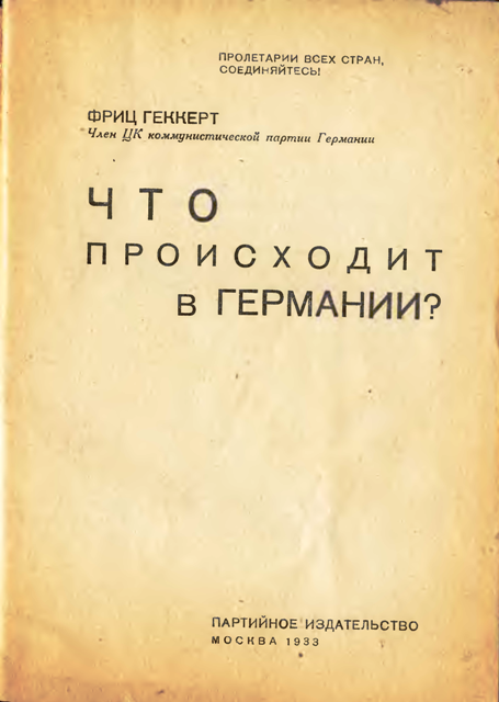 The cover of the pamphlet «What Happened in Germany» of Fritz Heckert (1884–1936) published in Russian on April, 14, 1933 concerning the situation in Germany after the acquisition of the chancellorship by Adolf Hitler